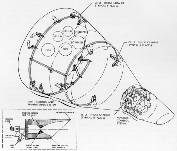 The general arrangement of liquid rocket systems (OAMS and RCS) in the Gemini spacecraft. The insert displays a typical thrust chamber assembly.)